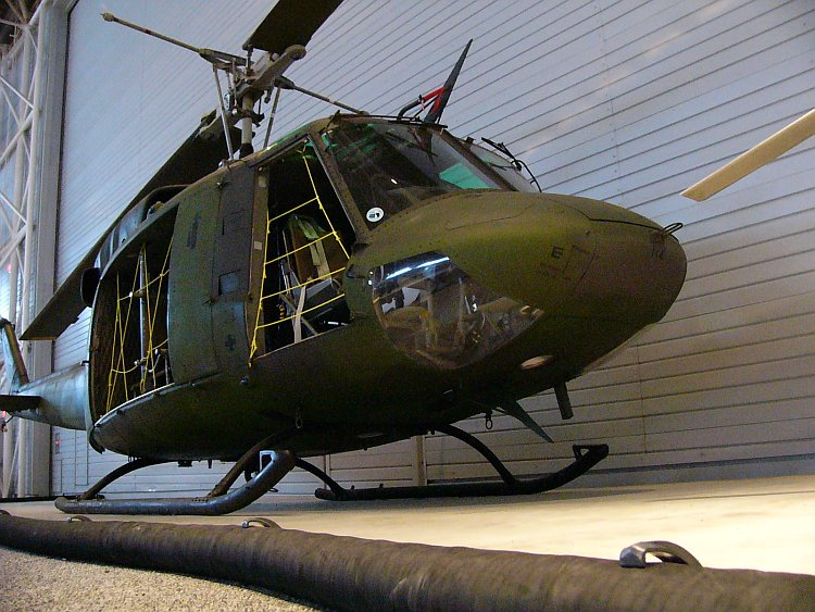 Canadian Forces CH-135 Twin Huey helicopter at the Canada Aviation Museum on October 9, 2006.